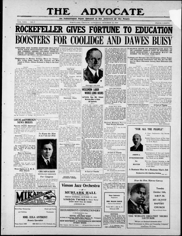 The Advocate, based in Portland Oregon newspaper article.